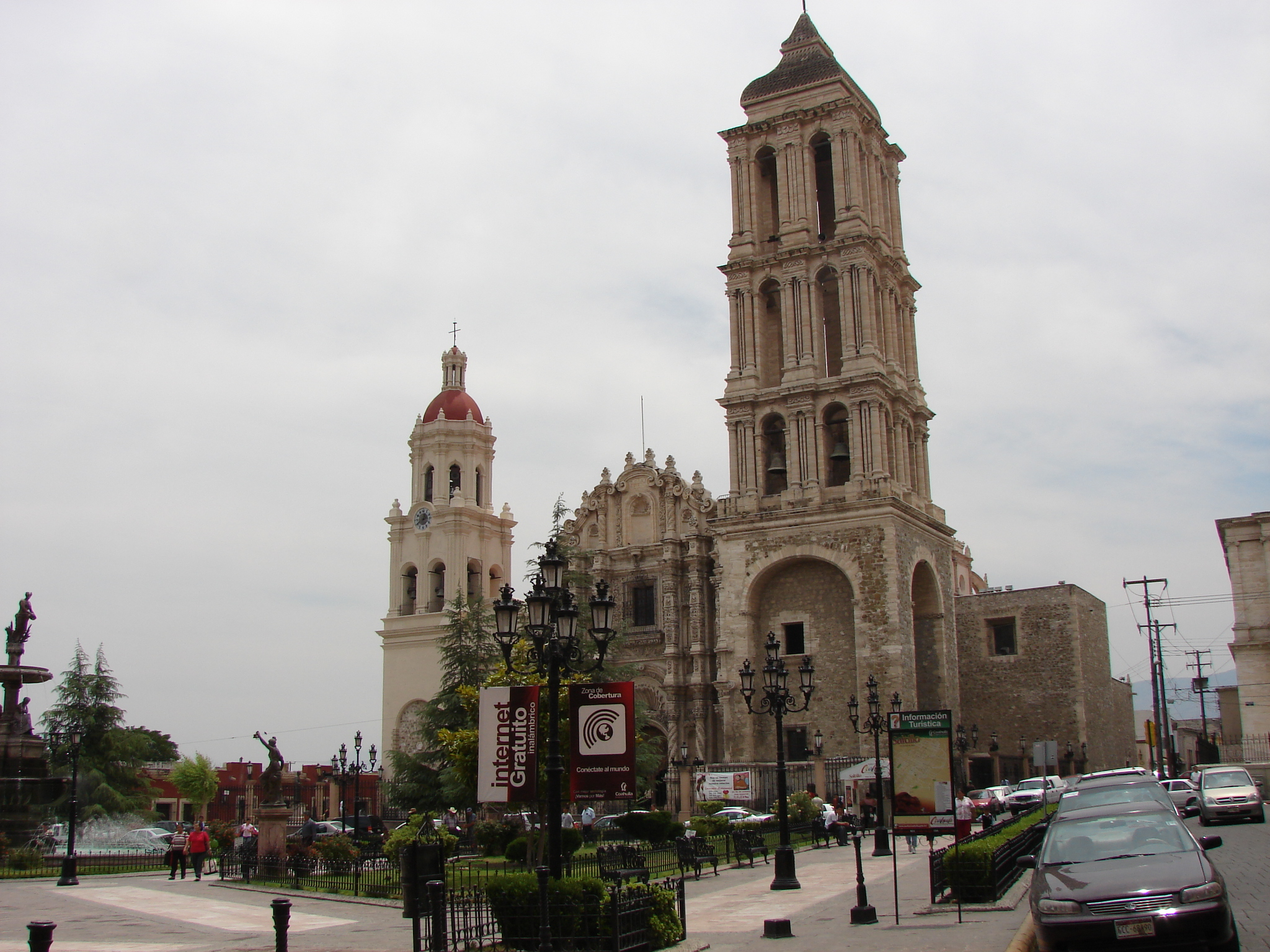 Cathedral of Saltillo Coahuila